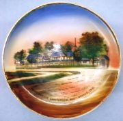 Martinsville Sanitarium commemorative coaster Category: Tools & equipment for materials; Food service tools & equipment Object Name: Coaster Maker: Jonroth Studios Place Made: Germany Date Made: 1900-1920 Materials: Ceramic Keyword: Commemorative Measurements: Height: 0.75"; diameter: 4 1/8" Item Count: 1 Style/Title: Martinsville Sanitarium commemorative coaster 71.988.081.0172_View1.jpg Porcelain Martinsville Sanitarium commemorative coaster features a shallow body with a center design, a sloped gold-trimmed rim, a short foot, a gold maker's mark with an artist palette design that reads, "Hand Painted; The Jonroth Studios; Germany," and a gray mark that reads, "Designed and Imported for [indecipherable] 5 & 10 cent store, Martinsville, Ind." The multi-colored design features an illustration of a long white building with a blue roof and multiple wings, with green landscaping, trees, and a road in the foreground and a blue, yellow, and pink sky in the background. The words, "Martinsville Sanitarium, Martinsville, Ind." are printed below. Indiana, Floyd County, New Albany. Collected and bequeathed to the Indiana State Museum through the Alice Scott Berkman Estate. No individual provenance found in donor file.